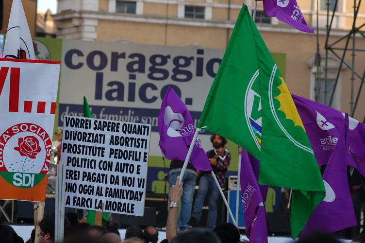 Coraggio laico, 12th may 2007, Piazza Navona, Rome